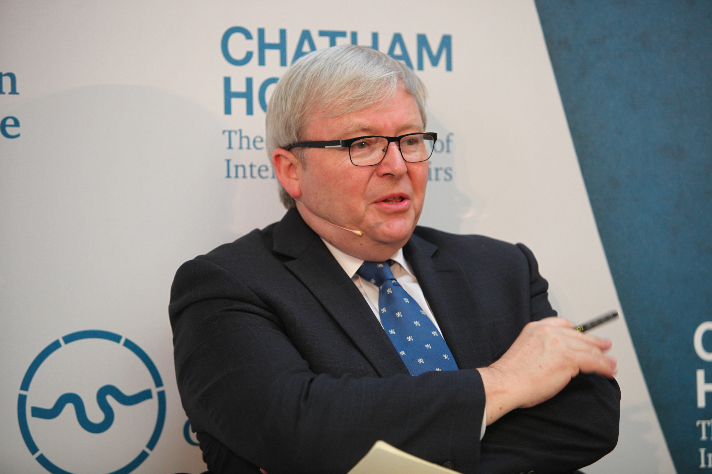 Kevin Rudd at an event held at Chatham House in June 2015